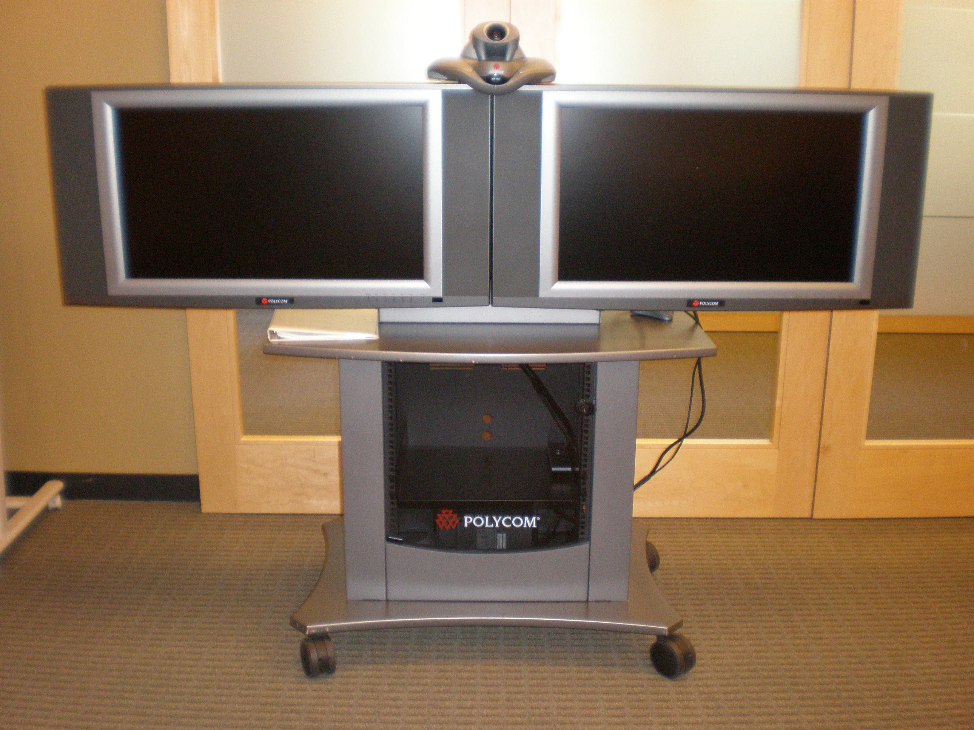 A Polycom VSX 7000 camera used for videoconferencing (top) with 2 video conferencing screens for simultaneous broadcast from 2 separate locations.